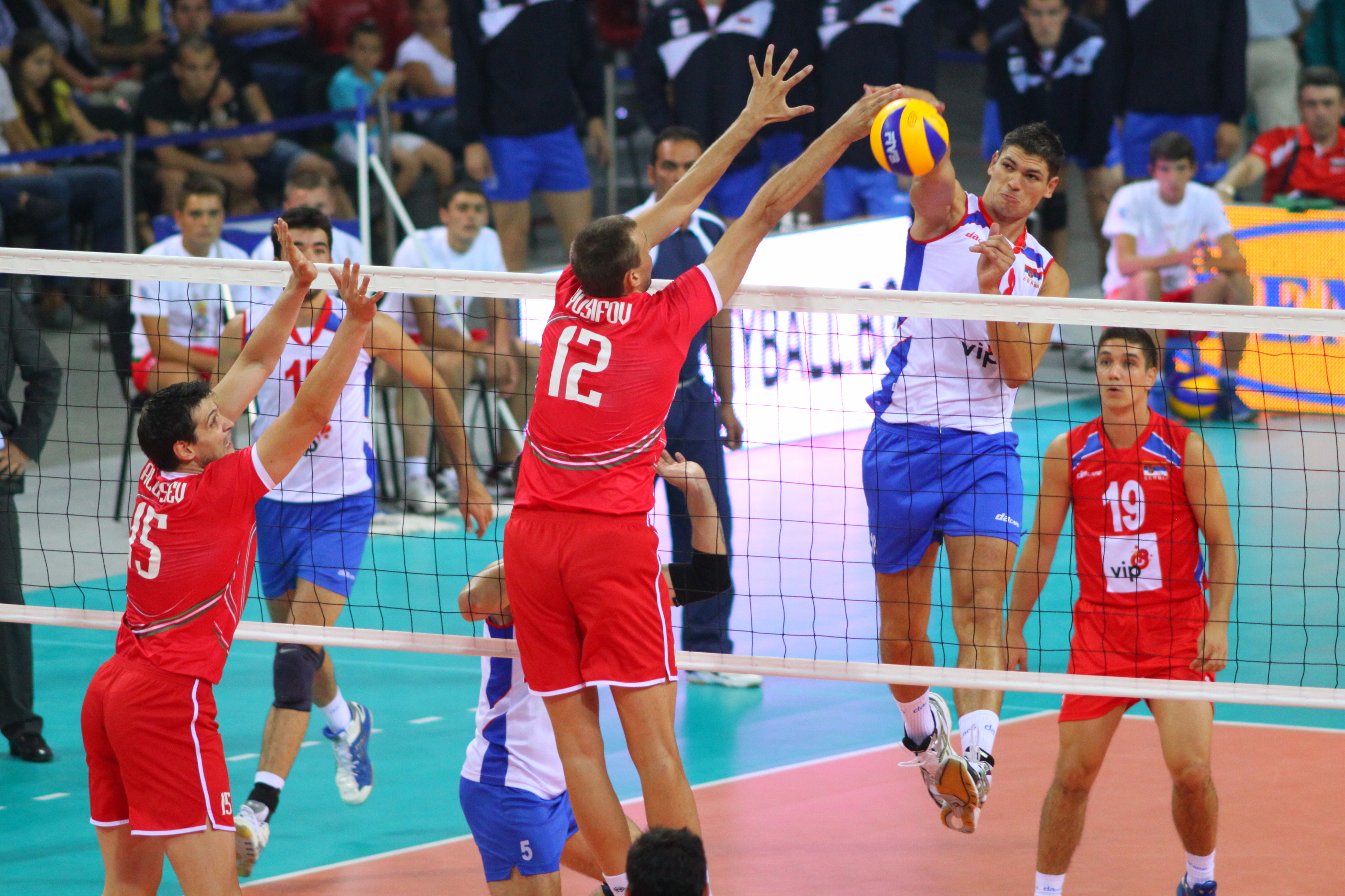 Moment in volleyball match Bulgaria - Serbia 3-0 - friendly match played in Sofia, at the opening of the Hall Armeec, July 30, 2011